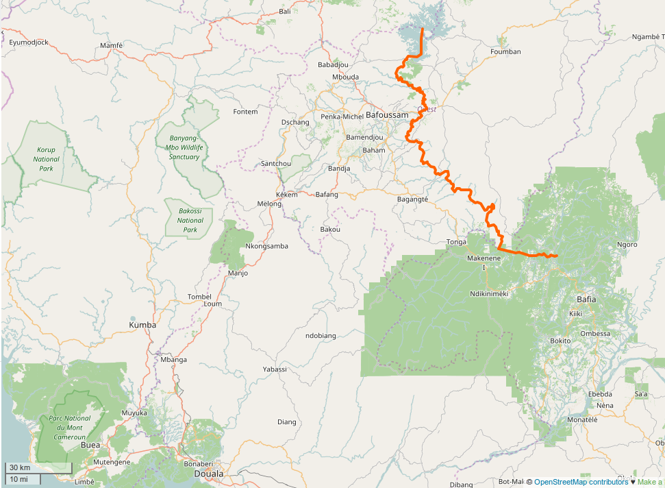 Noun River in Cameroon, with OSM. This map may be incomplete, and may contain errors. Don't rely solely on it for navigation.